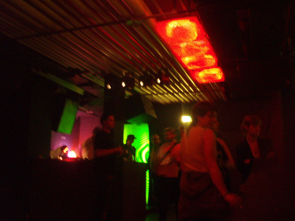 The techno club Rote Sonne in Munich on 1st October 2005.